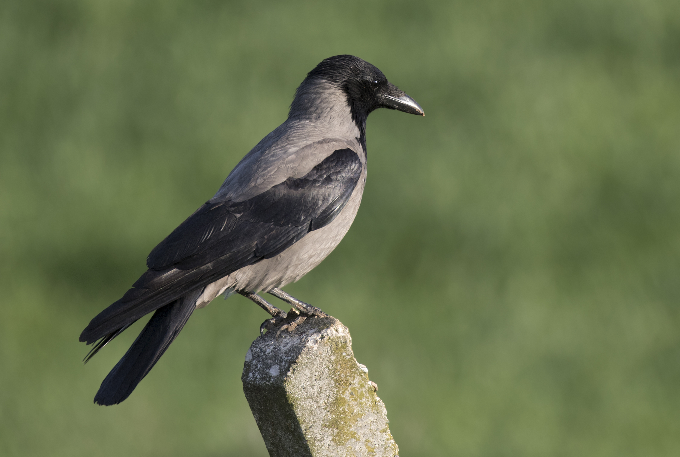 Hooded crow (Corvus cornix). Balcalı, Sarıçam - Adana, Turkey.